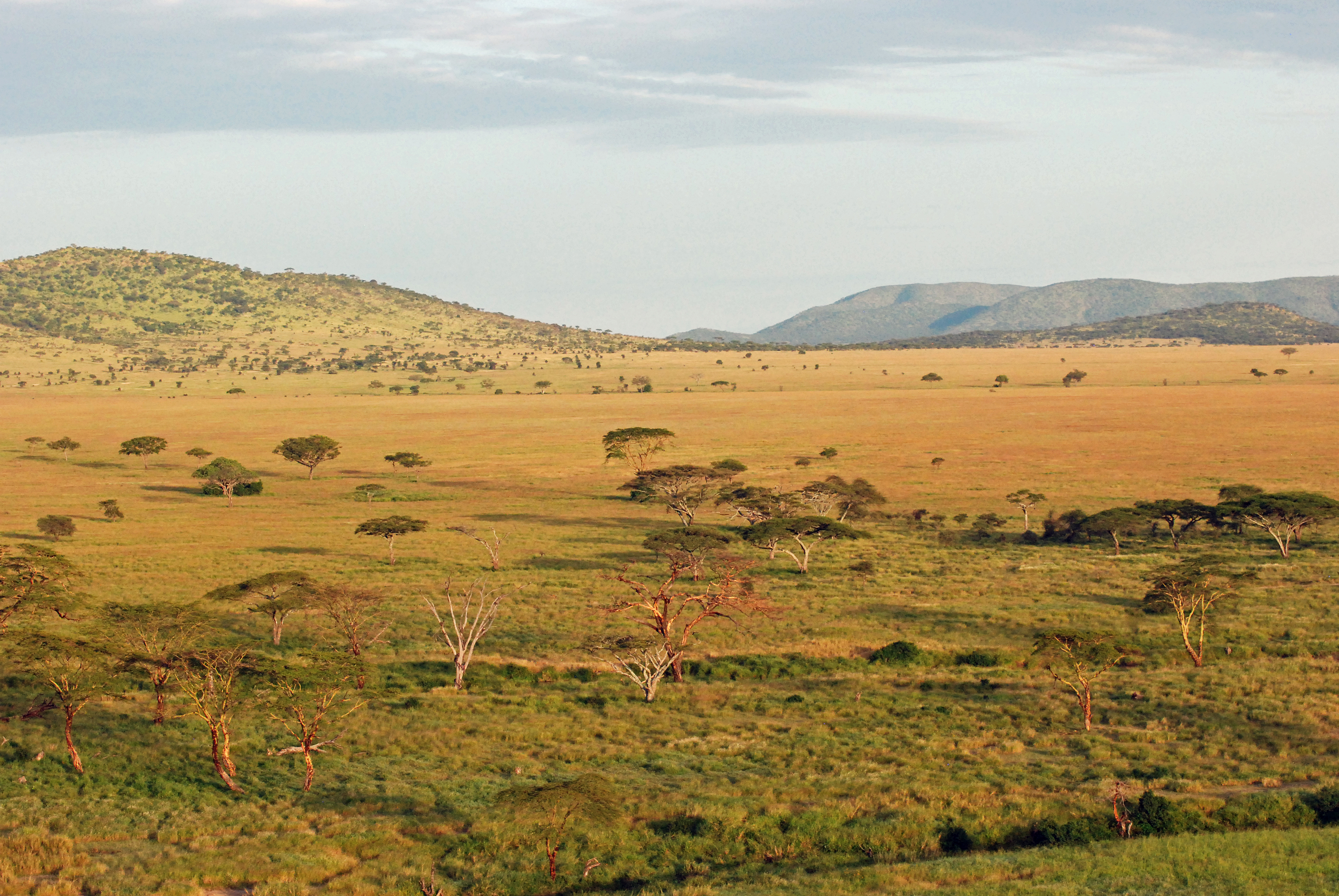 Floating along the Serengeti